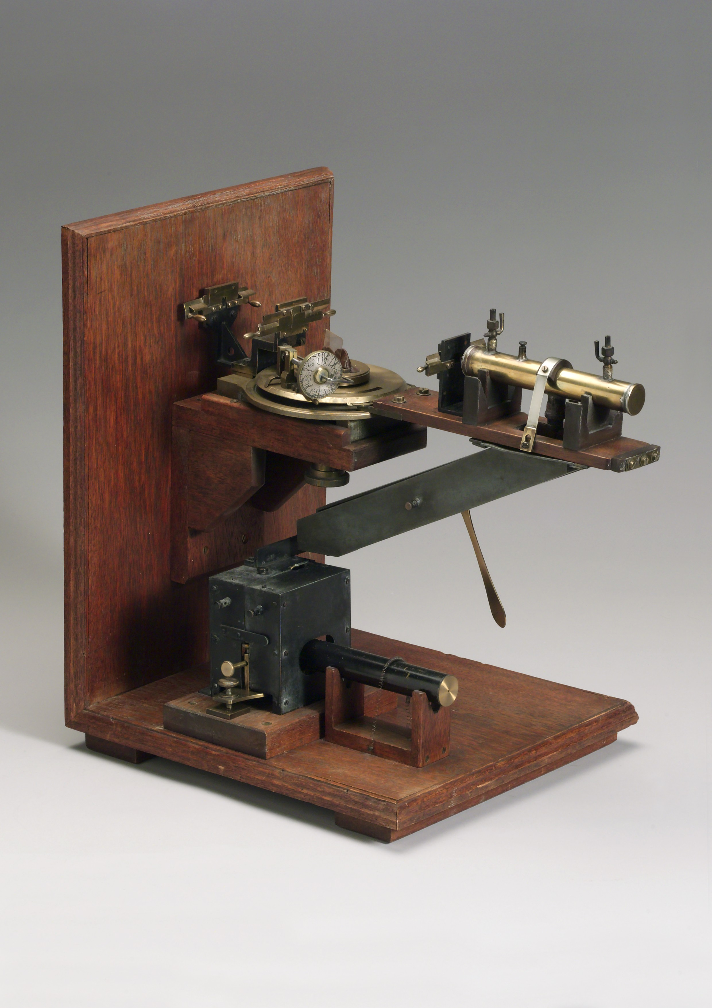 Bragg X-ray spectrometer, England, 1910-1926 Developed by William Henry Bragg (1862-1942), a professor of physics based in Leeds, England, this X-ray spectrometer was used by him and his son William Lawrence Bragg (1890-1971) to investigate the structure of crystals. The Braggs developed new tools and techniques to understand crystals. Their research was the basis of ¬X-ray crystallography, a technique that was used to advance chemistry, physics and biology. The Braggs won the Nobel Prize for Physics in 1915. Medical Photographic Library